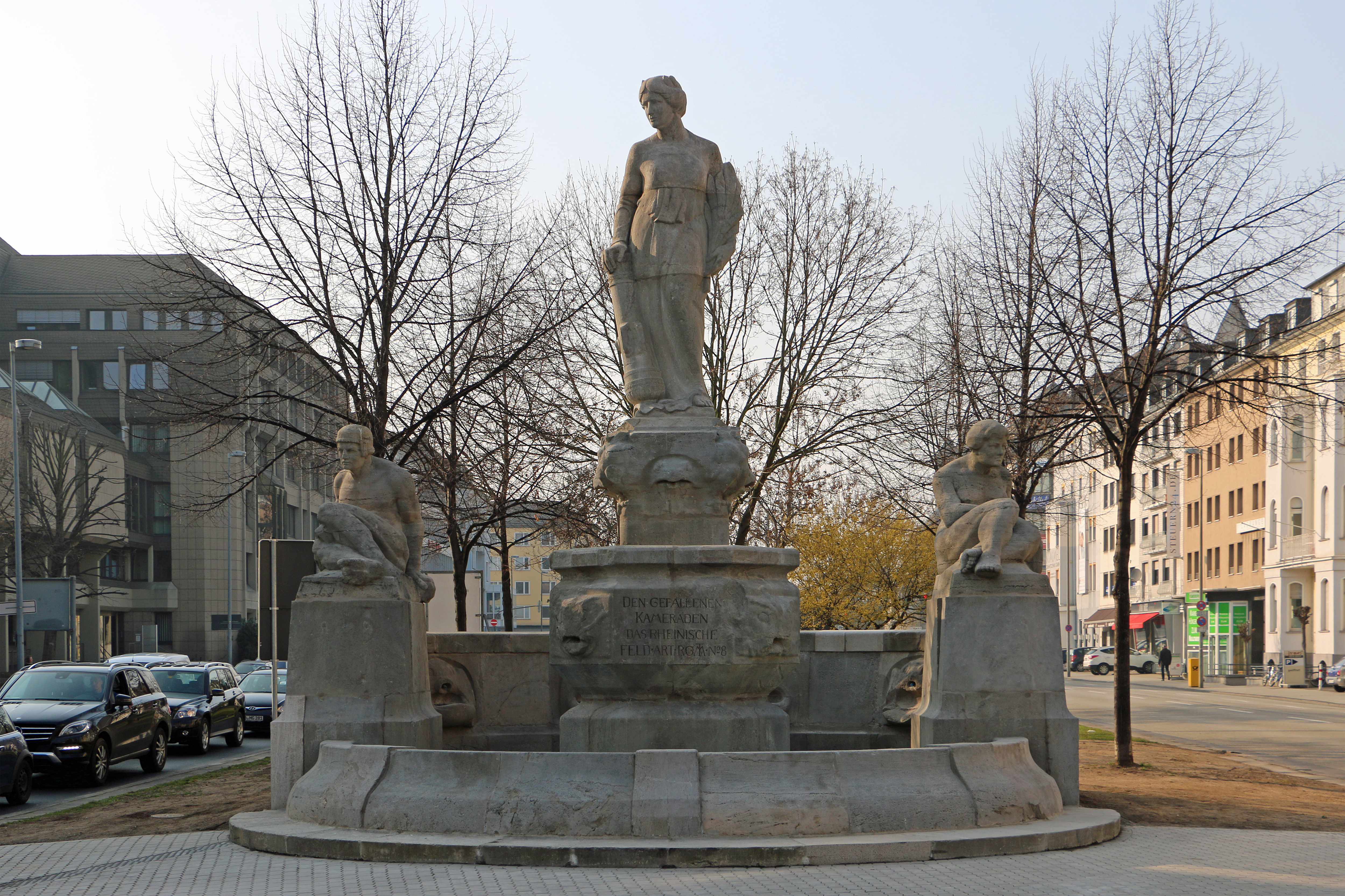 Barbara monument in Koblenz